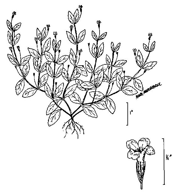 Lindernia dubia from USDA NRCS. Wetland flora: Field office illustrated guide to plant species. USDA Natural Resources Conservation Service. Provided by NRCS National Wetland Team, Fort Worth, TX.